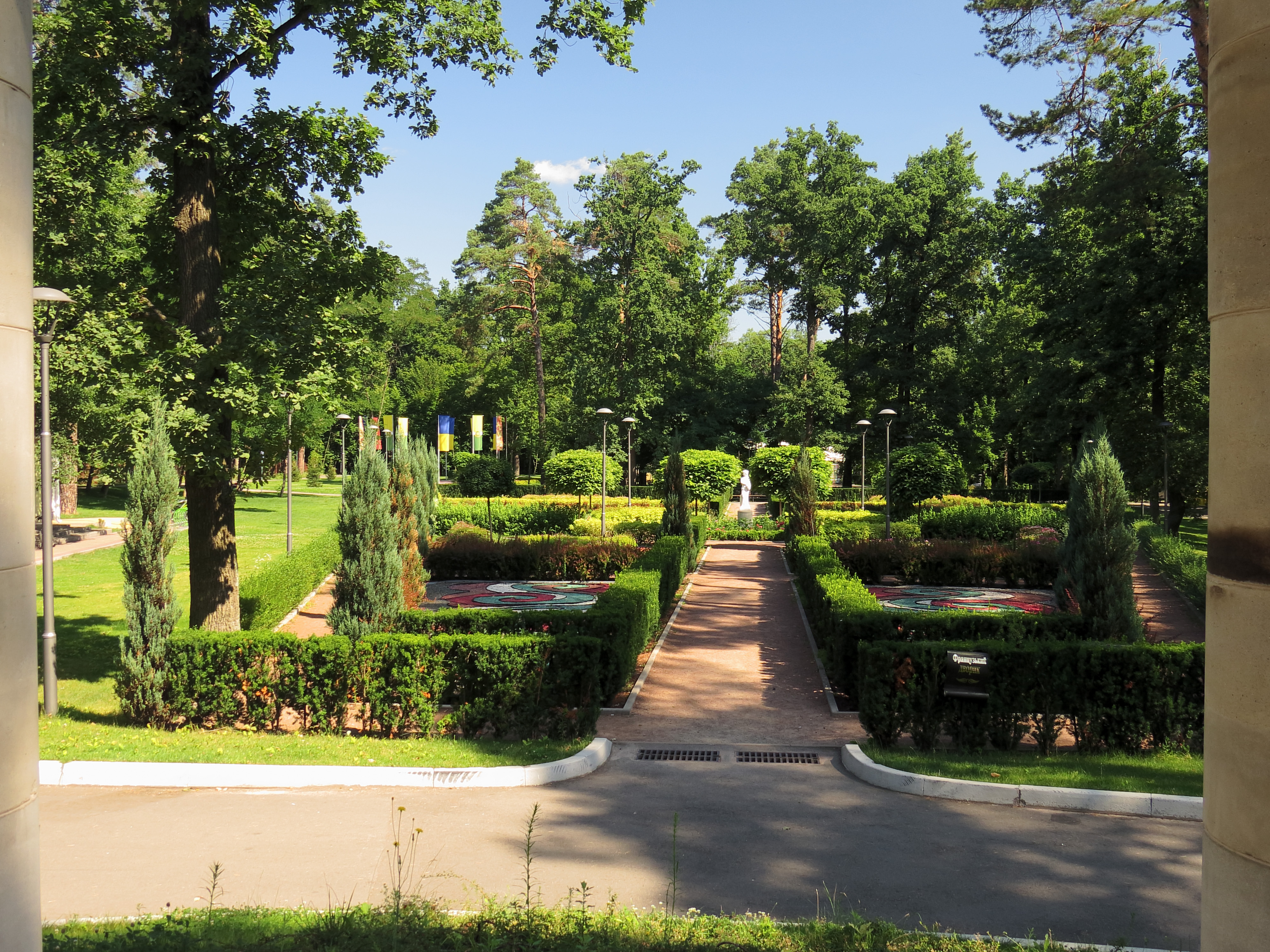 City park in Bucha, Kiev oblast, Ukraine. French garden